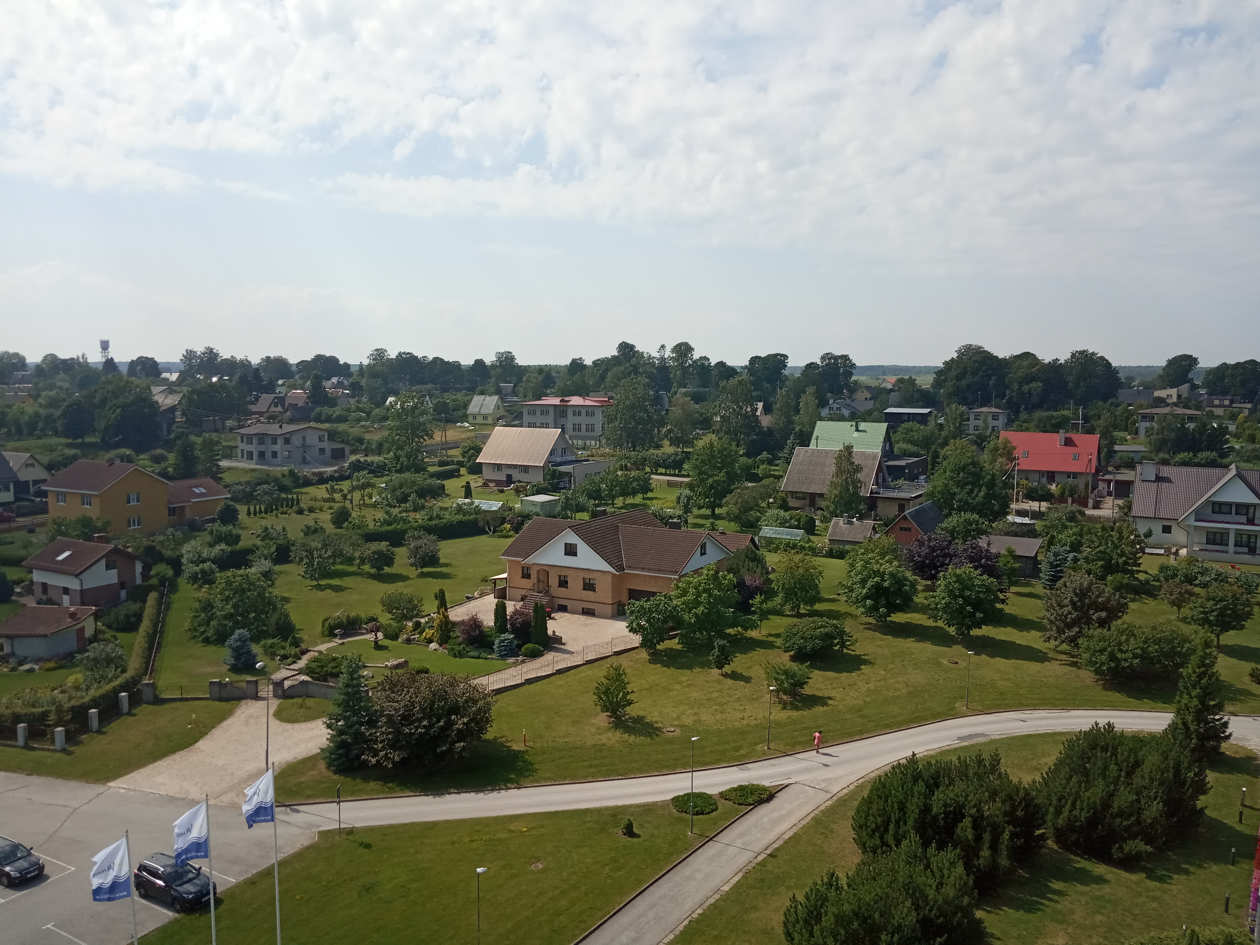 View of Toila